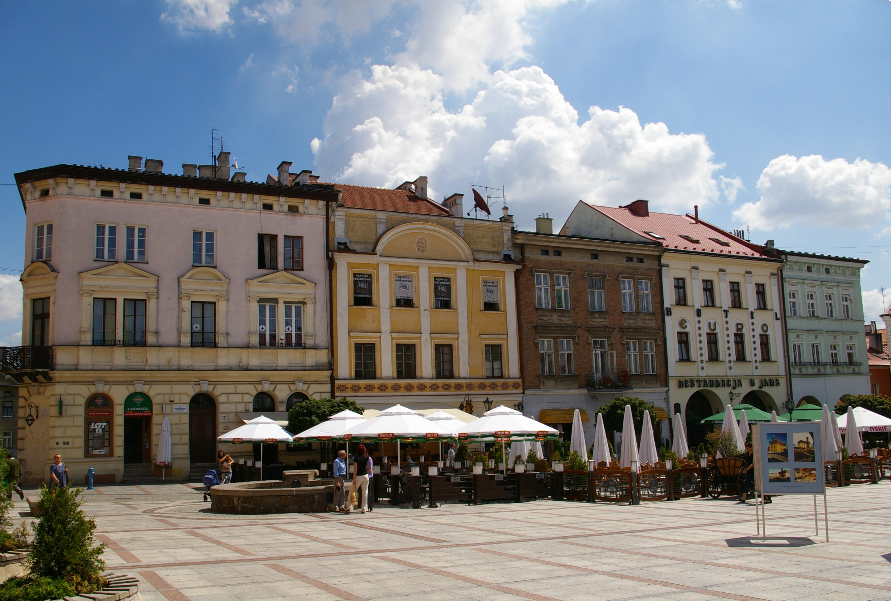 Marquet square in Tarnów, Poland